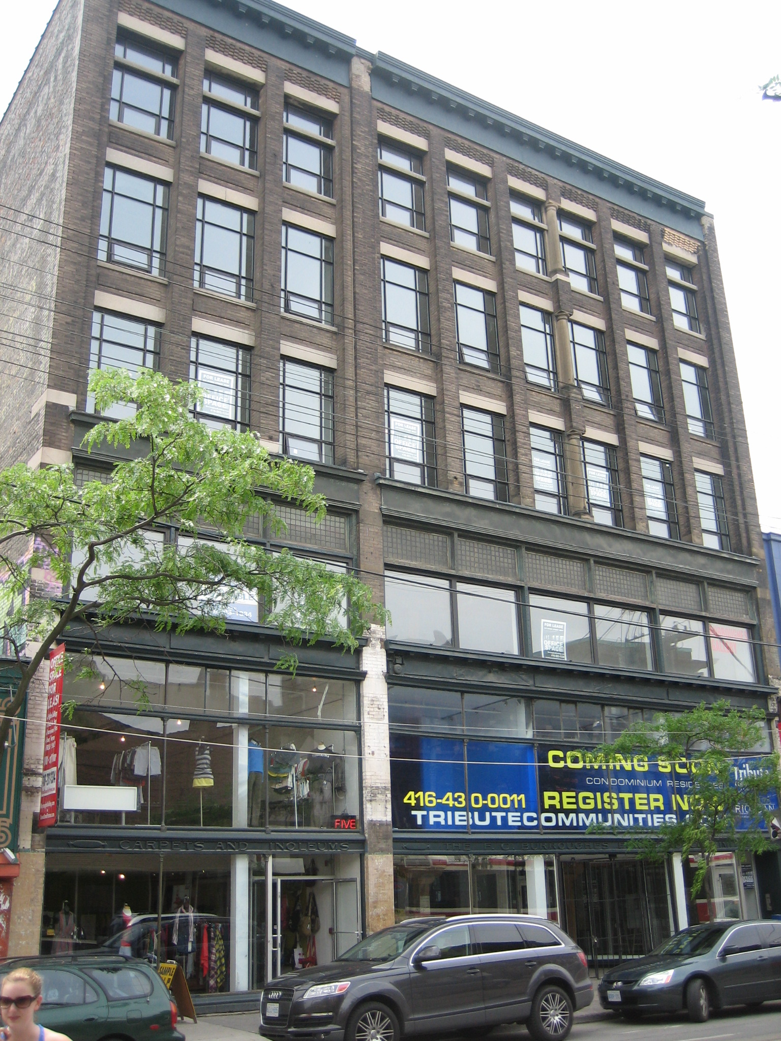 Burroughes Building, 645 Queen St. West, Toronto, Ontario, Canada